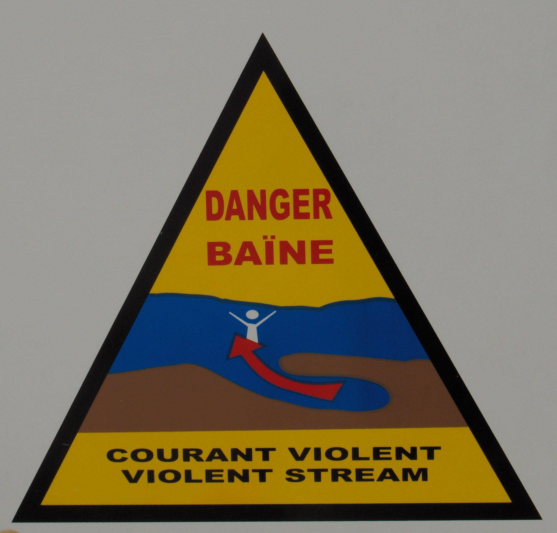 Warning sign in Mimizan, Landes, France, about the dangers of streams. Picture by Jibi44.